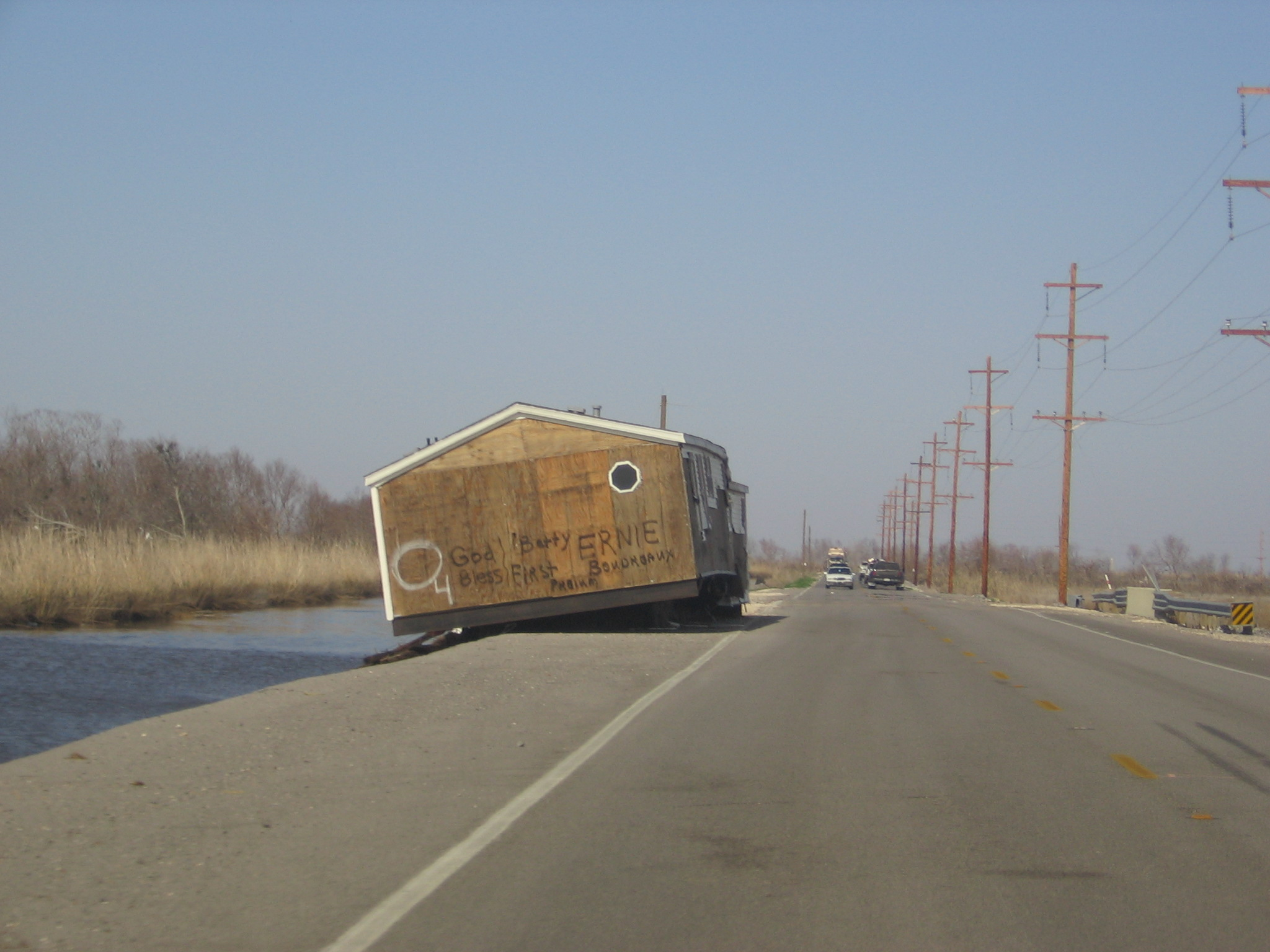 Trailer moved onto road in Cameron Parish, Louisiana. Aftermath of Hurricane Rita.